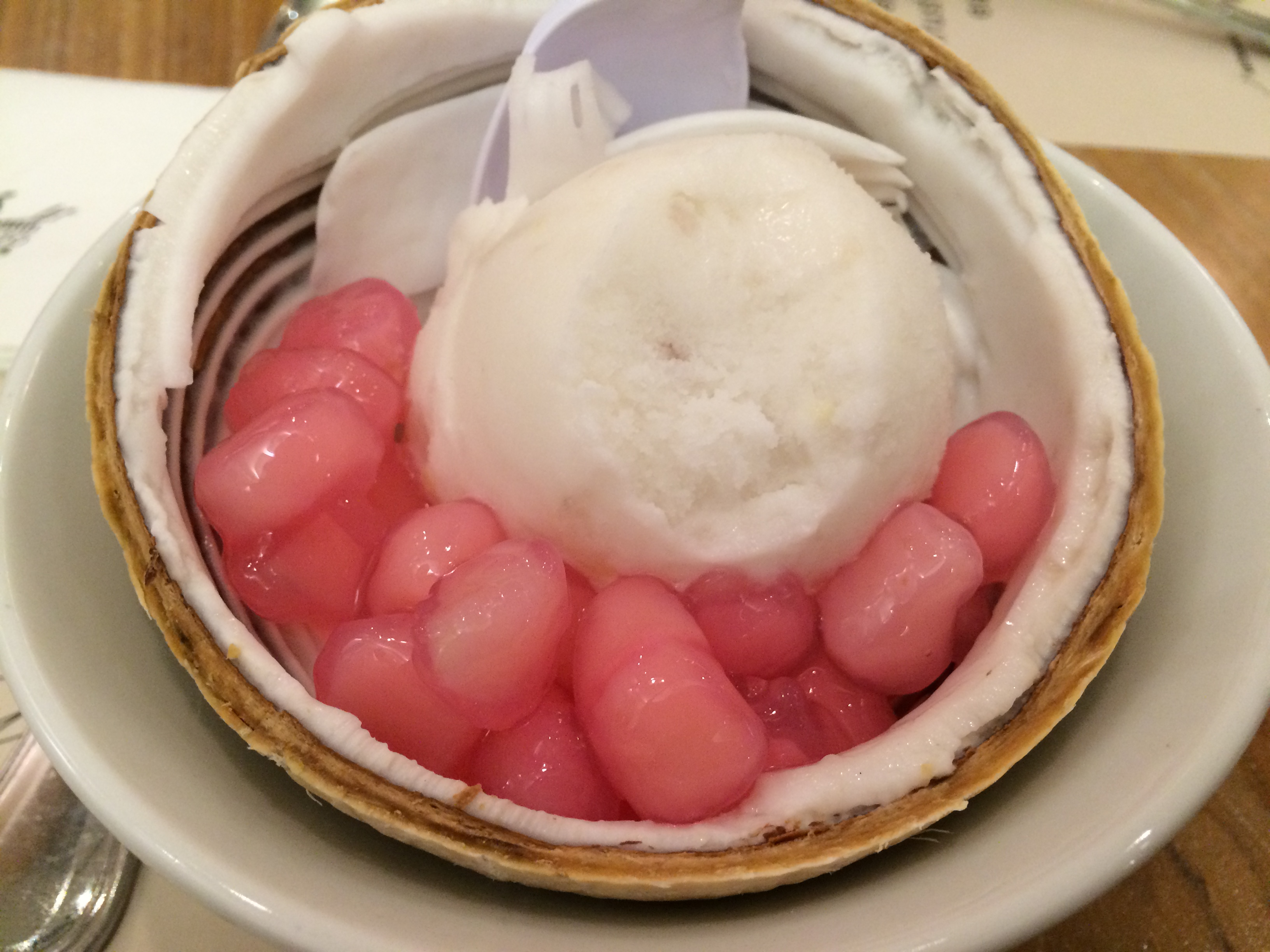 yummy!